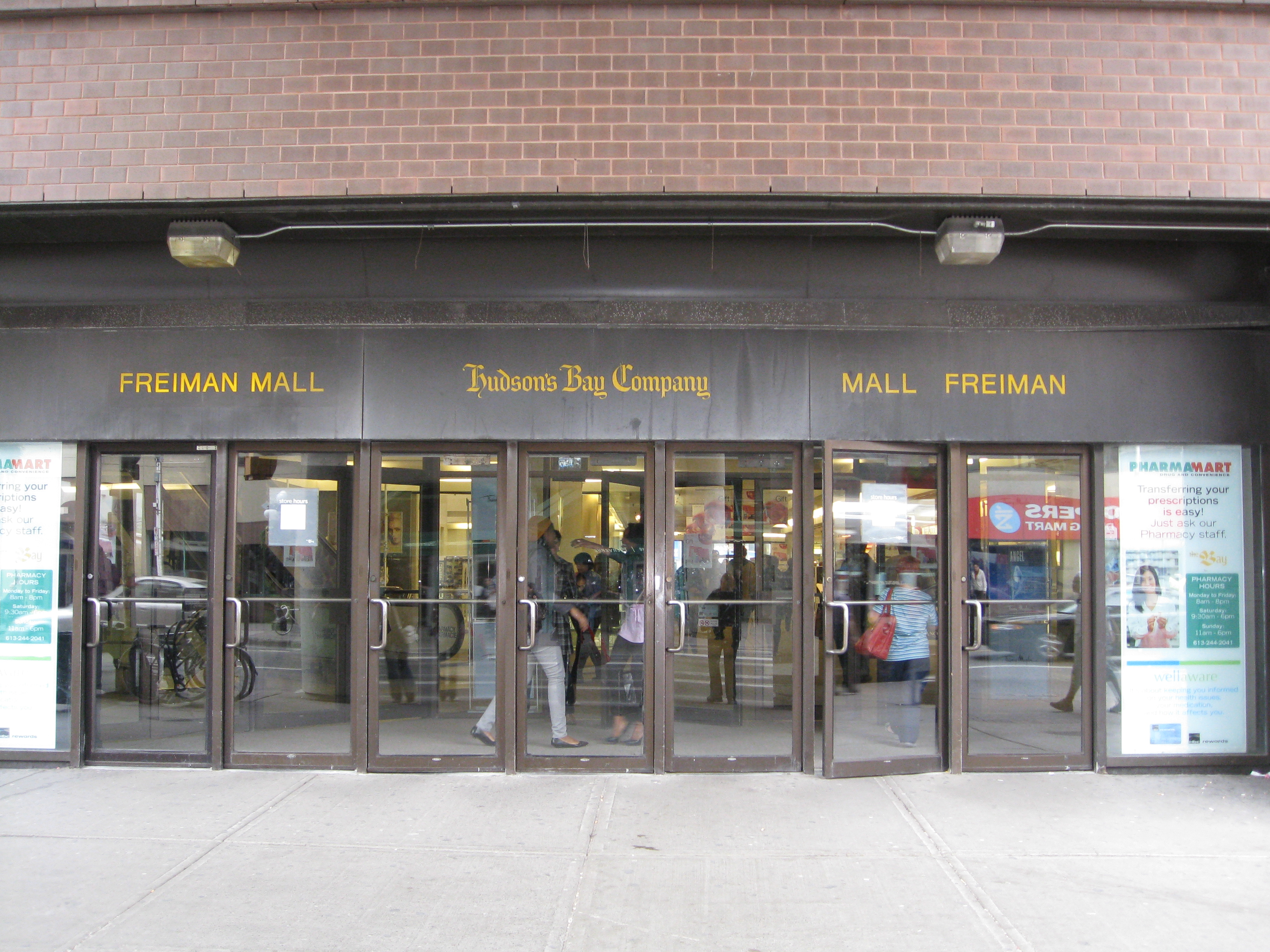 A picture of outdoor entrance to the Freiman Mall, taken by myself, on April 15th 2010.